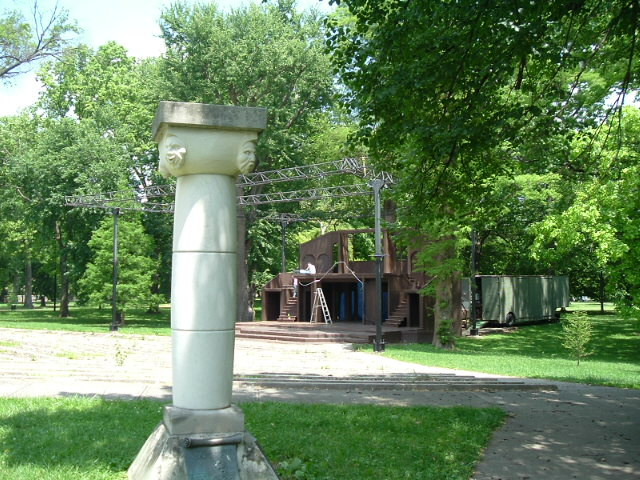 Picture of Central Park in Old Louisville. Taken by Jeffrey B. Morris on May 26, 2006, the year of the dog. All rights released.